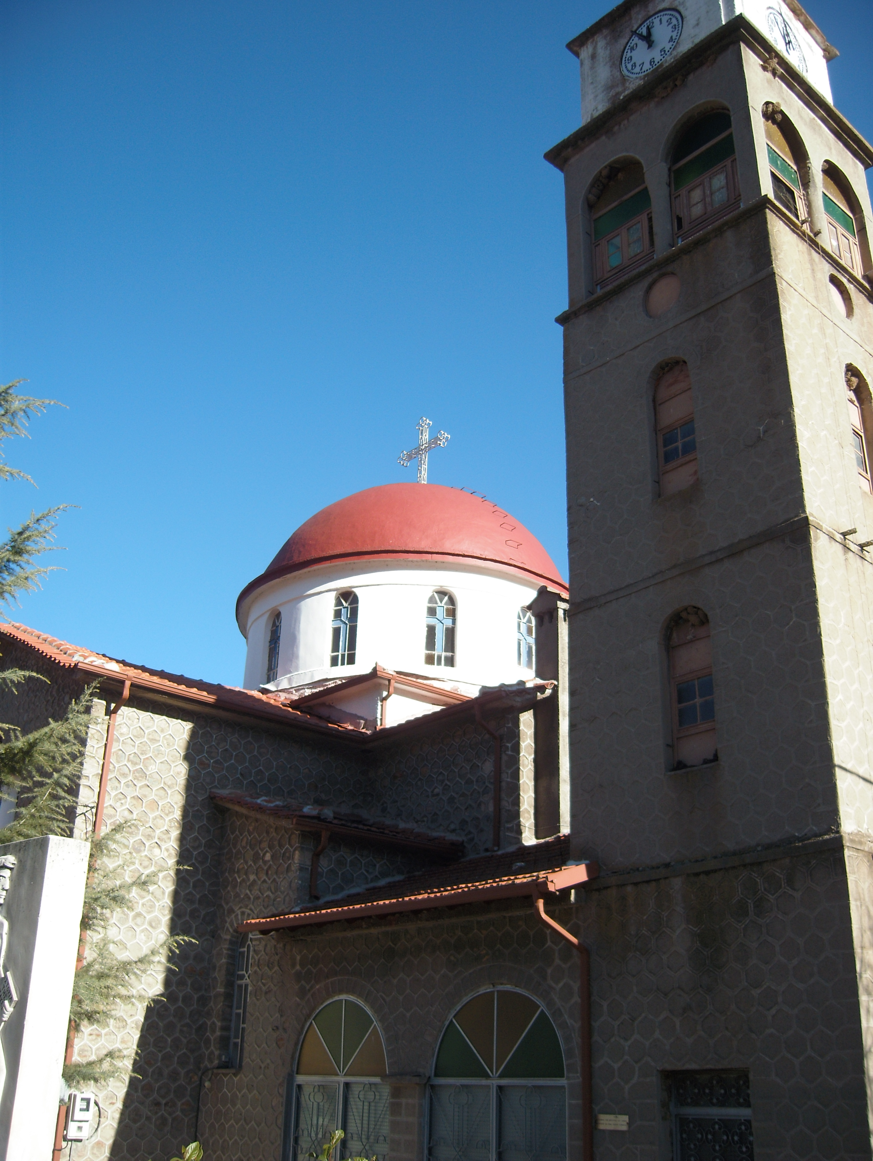 Church St Minas in Lechovo